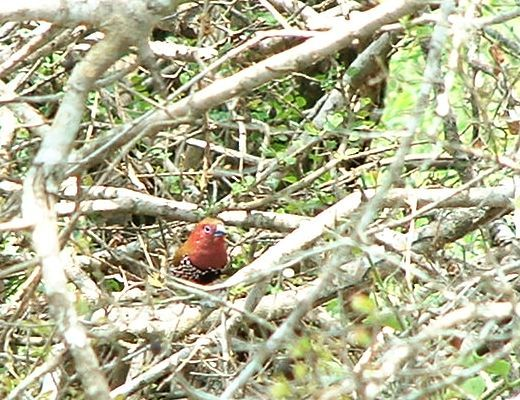 Male Pink-throated Twinspot (Hypargos margaritatus). Location: Mkhuze Game Reserve, South Africa For more info on this species